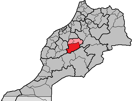 Location of the province Azilal within the region Tadla-Azilal, Morocco. In total, Morocco has 16 regions, subdivided into 62 provinces and 13 prefectures.